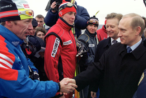 PLANERNAYA TRAINING CENTRE, THE MOSCOW REGION. President Putin inspects ski stadium. President Putin with Russian skier, world and Olympic champion Alexei Prokurorov (left).